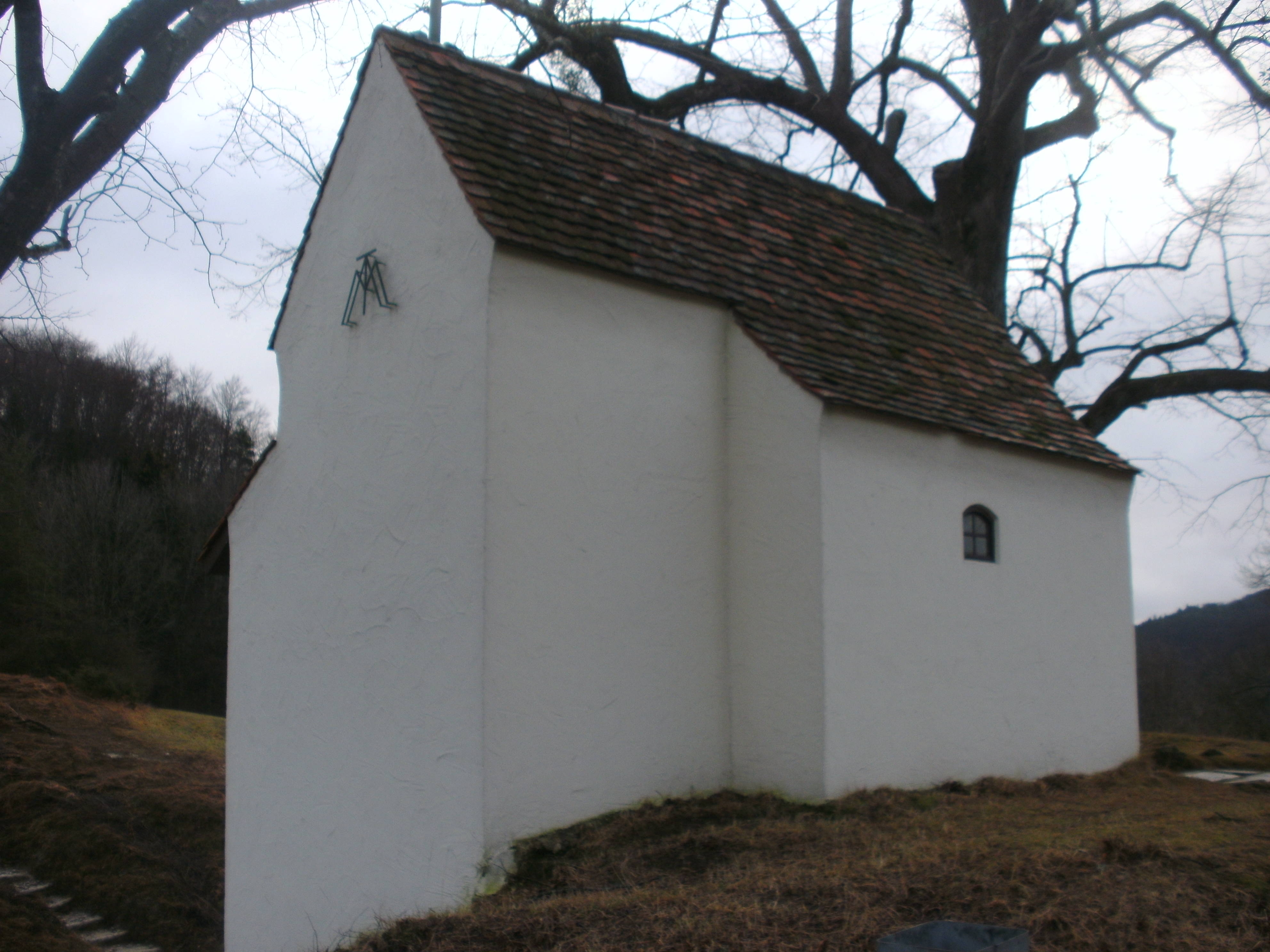 The Reiterleskapelle (build 1714) near Waldstetten (Ostalbkreis), Germany